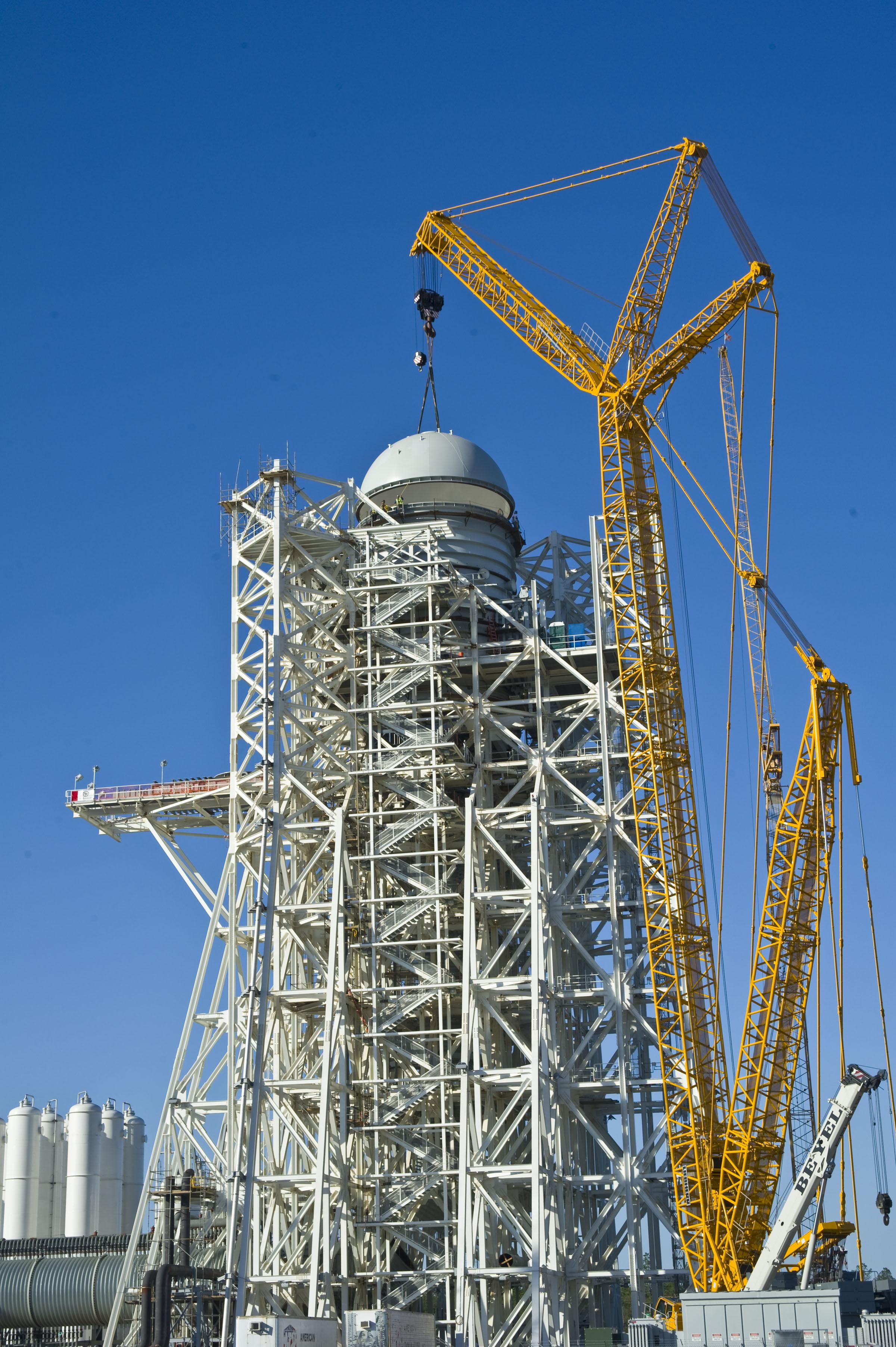 With the placement of the test cell dome atop NASA's new A-3 Test Stand at the John C. Stennis Space Center, the project met another milestone.